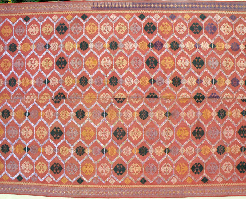 Songket Kain from Bali. An old cloth. Cotton base with supplementary weave in cotton, gold and silver gimp. The cloth is made of two narrow panels woven on a back-strap loom and joined. 170 x 88 cm.